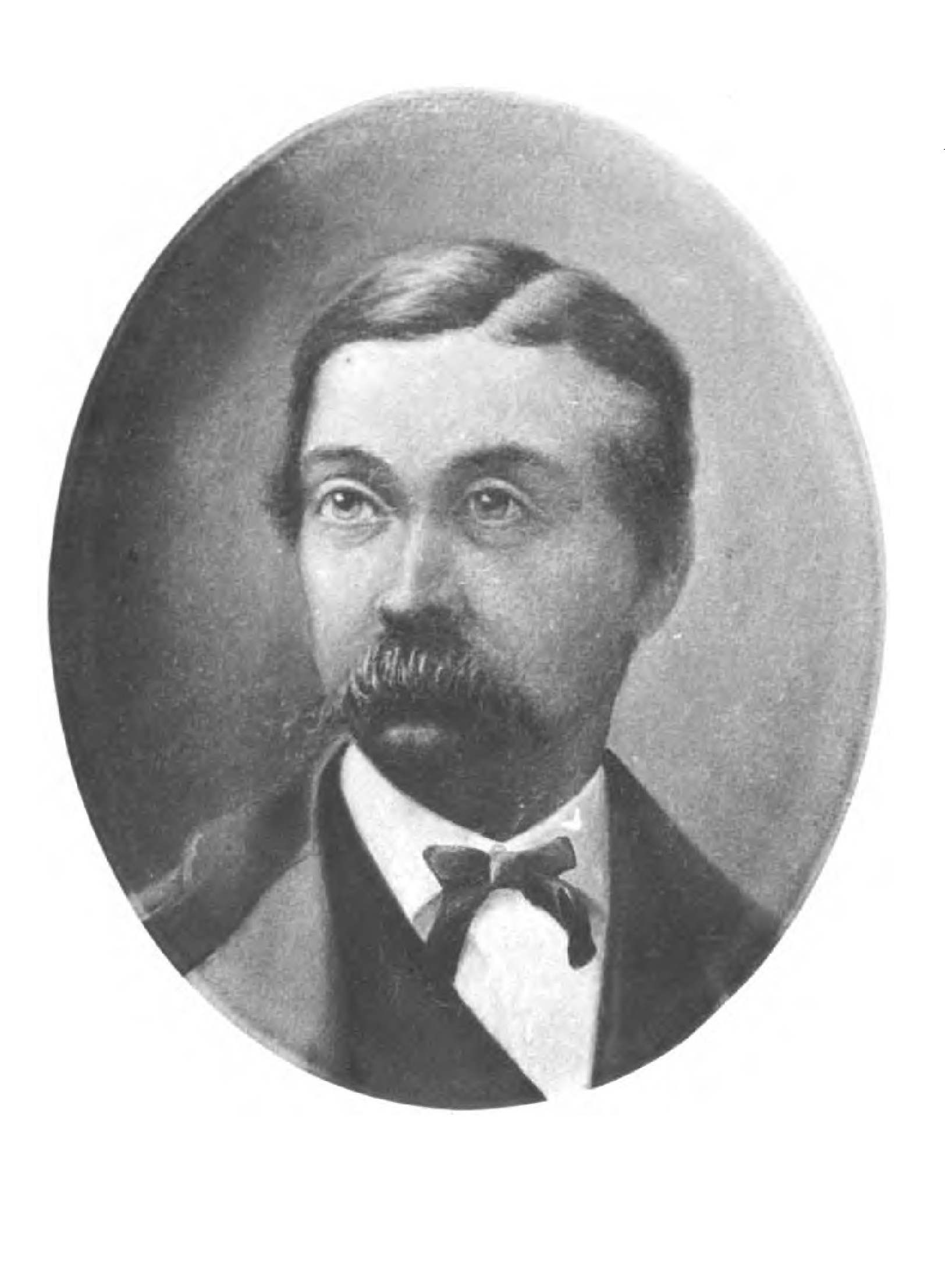 Sketch of Fitz-James O'Brien by William Winter (1836 – 1917)